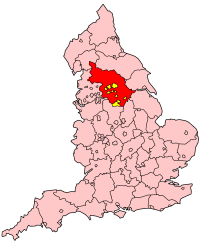 West Riding Pre 1974